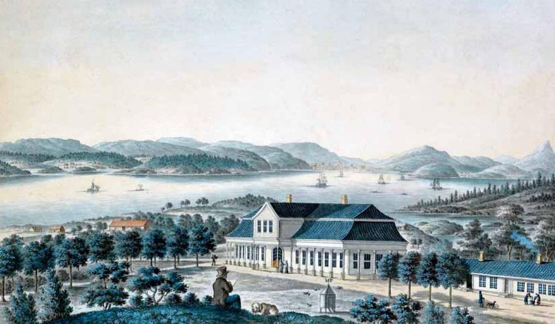 Prospect of Thomas Erichsens Minde, Hop, Askøy